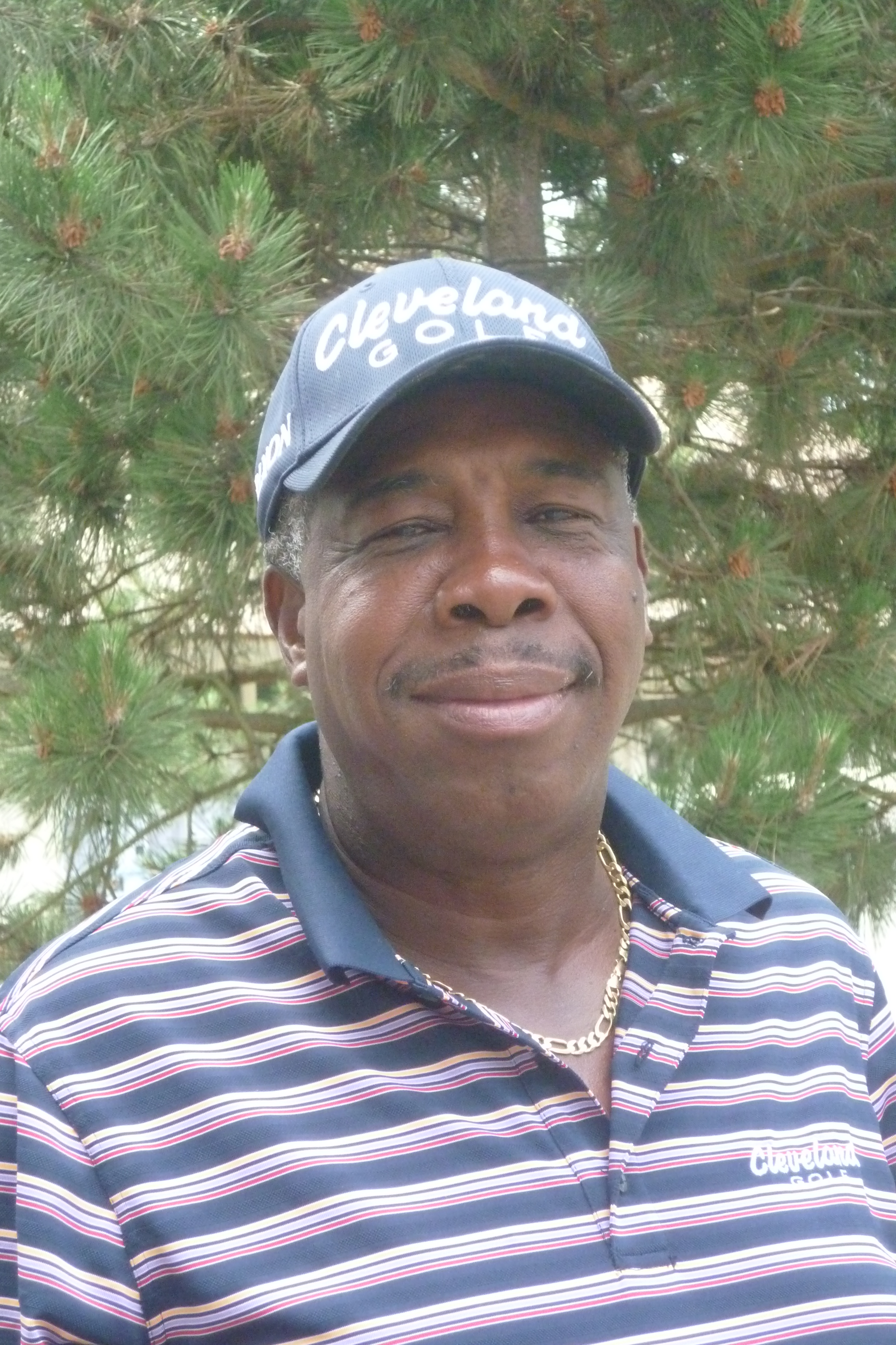 Delroy Cambridge at the Dutch Senior Open 2010